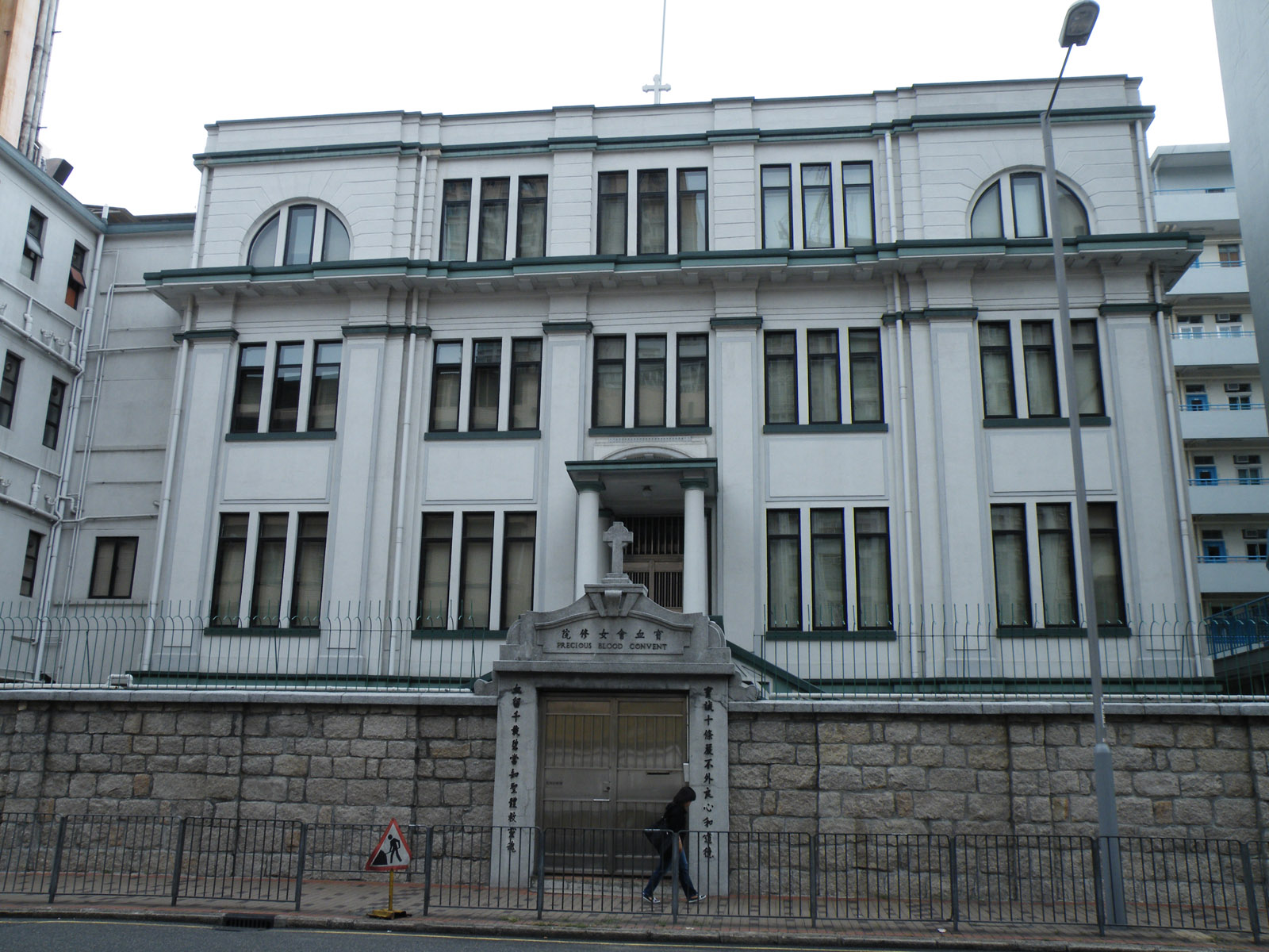 Precious Blood Convent, No. 86 Un Chau Street